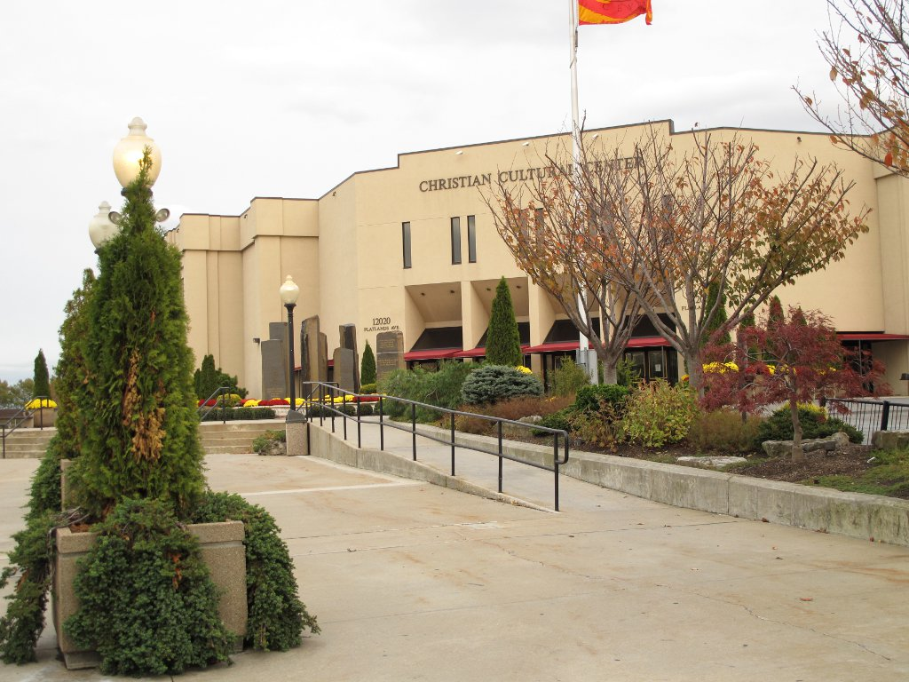 The Christian Cultural Center in Brooklyn, NY, as shown from the west side, on a November late afternoon.